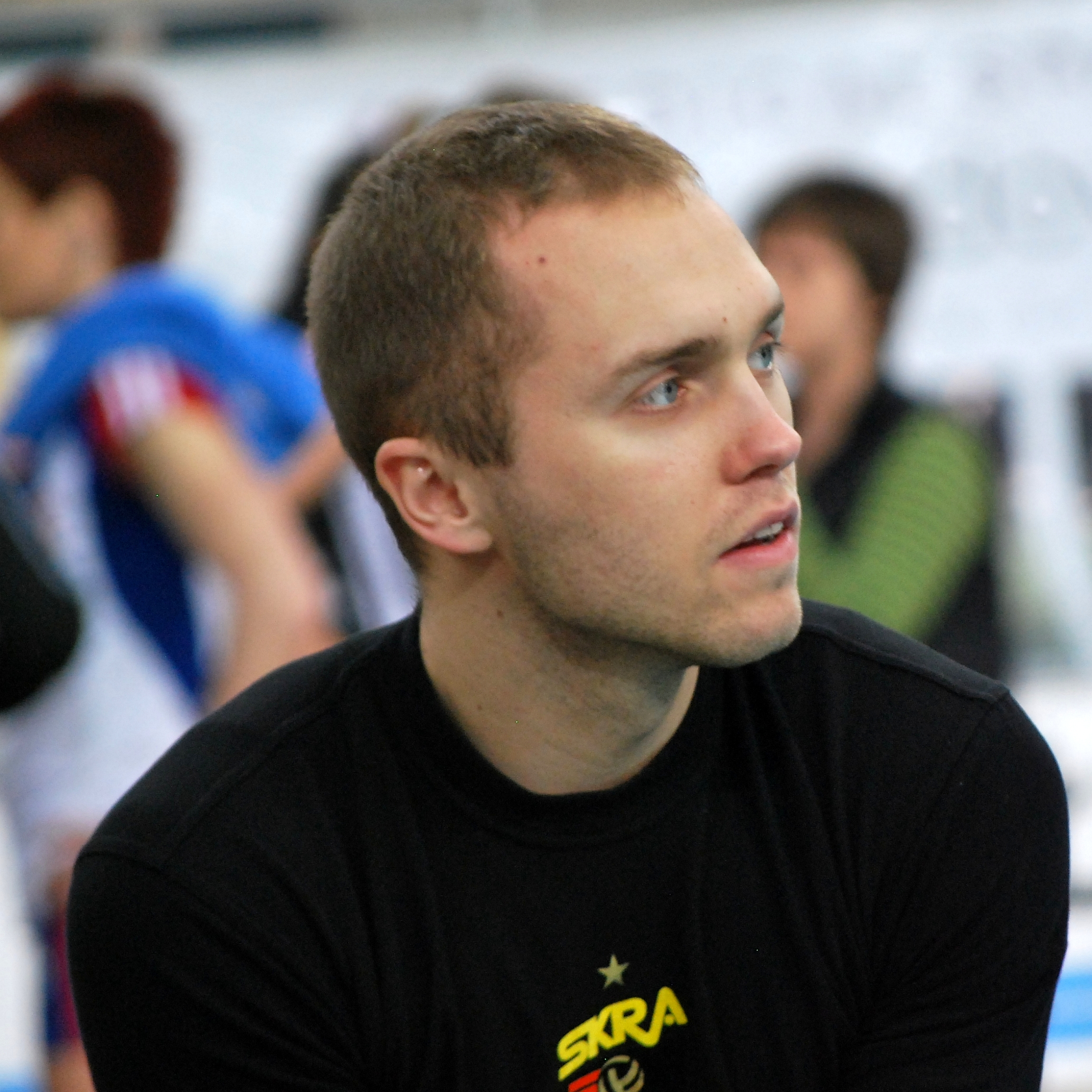 Paweł Zatorski, volleyball player from Poland